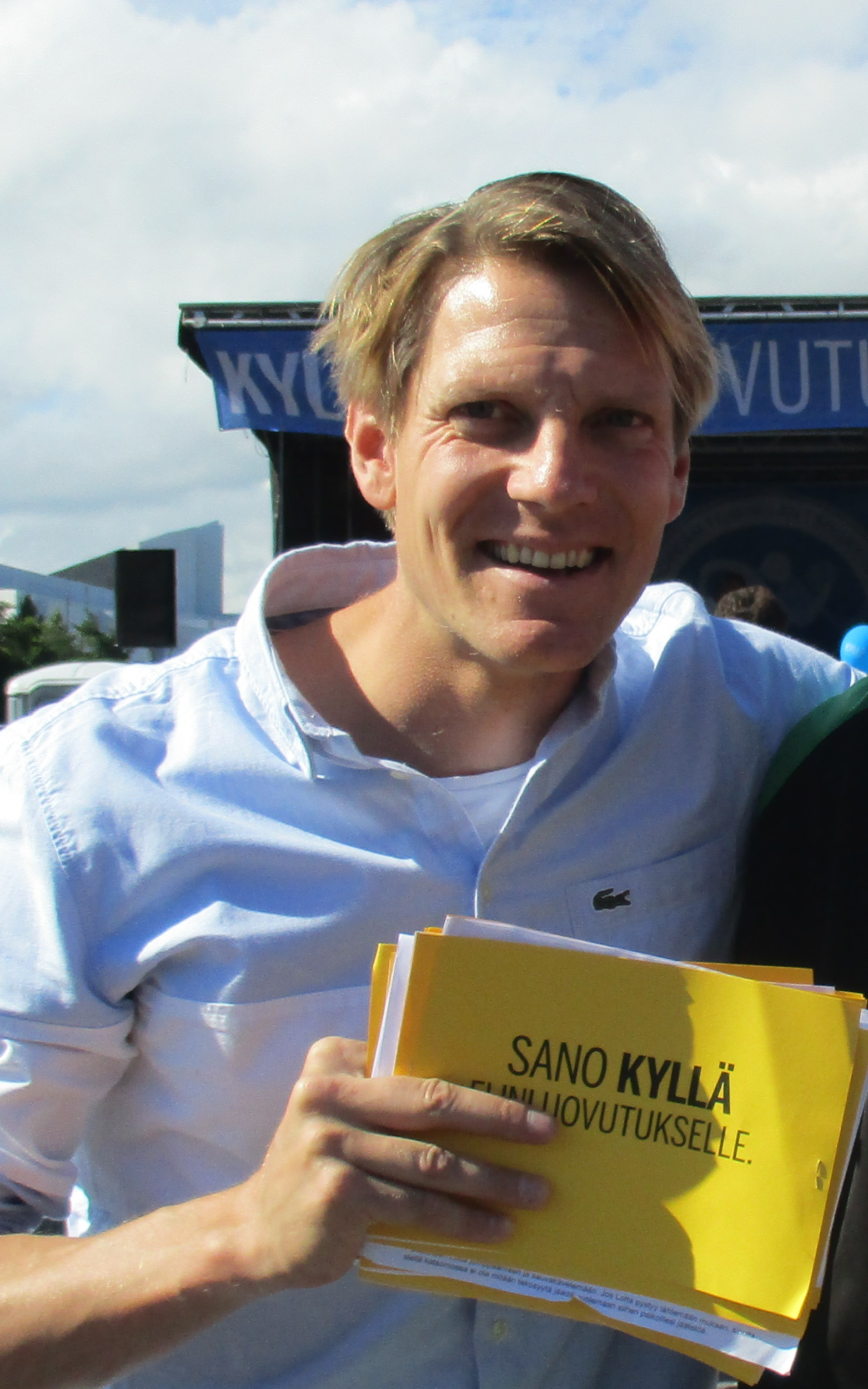 Tero Karhu & Don Bigileone at Kansalaistori in Helsinki, Finland on 12th of July 2016.